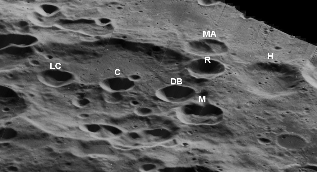 Oblique view of a cluster of lunar craters within the larger Apollo, on the far side of the moon, facing west. The craters are named after the seven astronauts killed in the Space Shuttle Columbia disaster. LC = L. Clark (after mission specialist Laurel Clark), C = Chawla (after mission specialist Kalpana Chawla), DB = D. Brown (after mission specialist David M. Brown), H = Husband (after commander Rick Husband), MA = M. Anderson (after mission specialist Michael P. Anderson), M = McCool (after pilot William McCool), R = Ramon (after Israeli payload specialist Ilan Ramon).